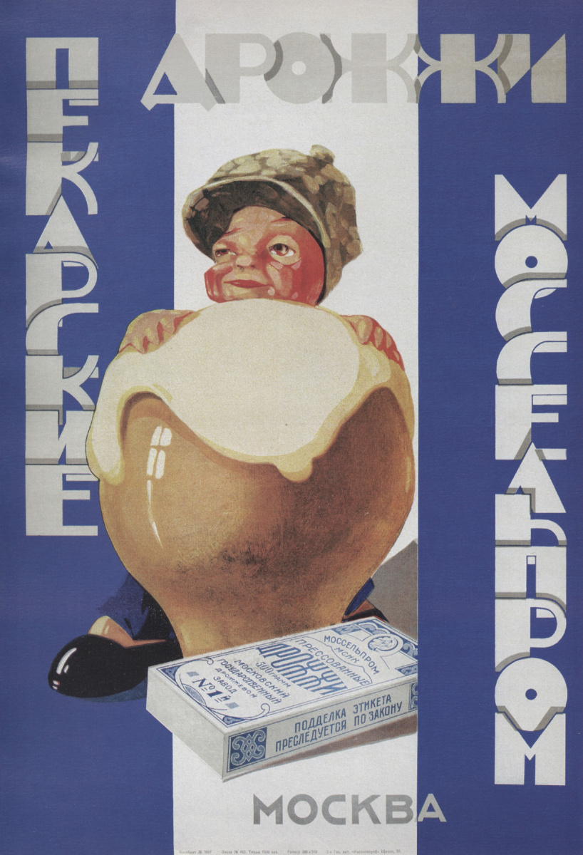 Alexander Zelensky. Baker's yeast. Poster for Mosselprom. Moscow. 1930